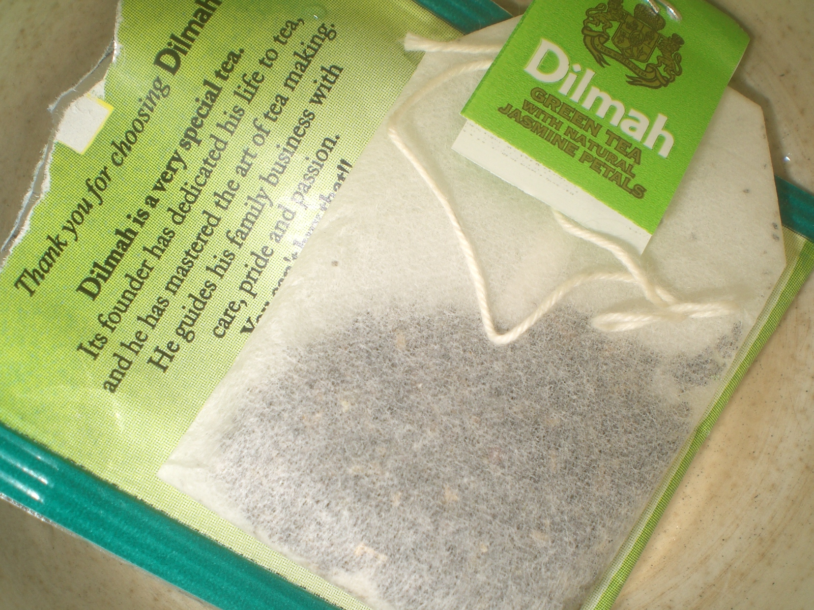 Dilmah - photo by me on today.